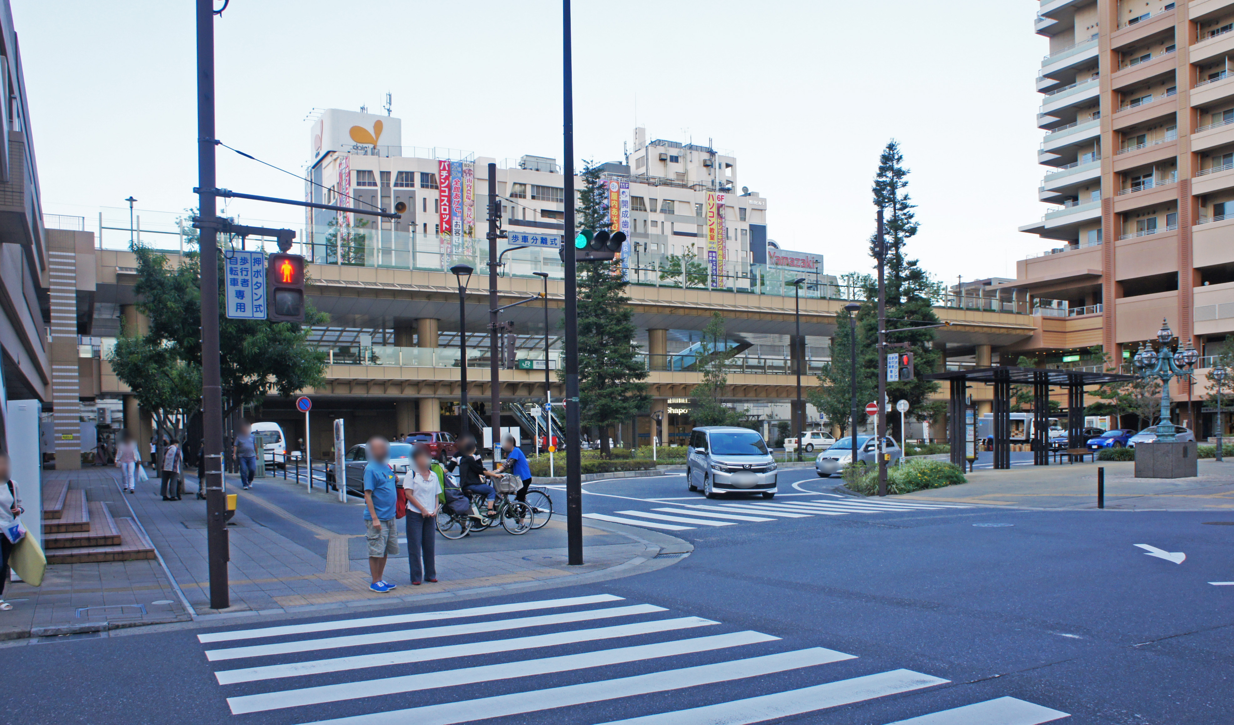 South Exit of JR Sobu-Main-Line Ichikawa Station